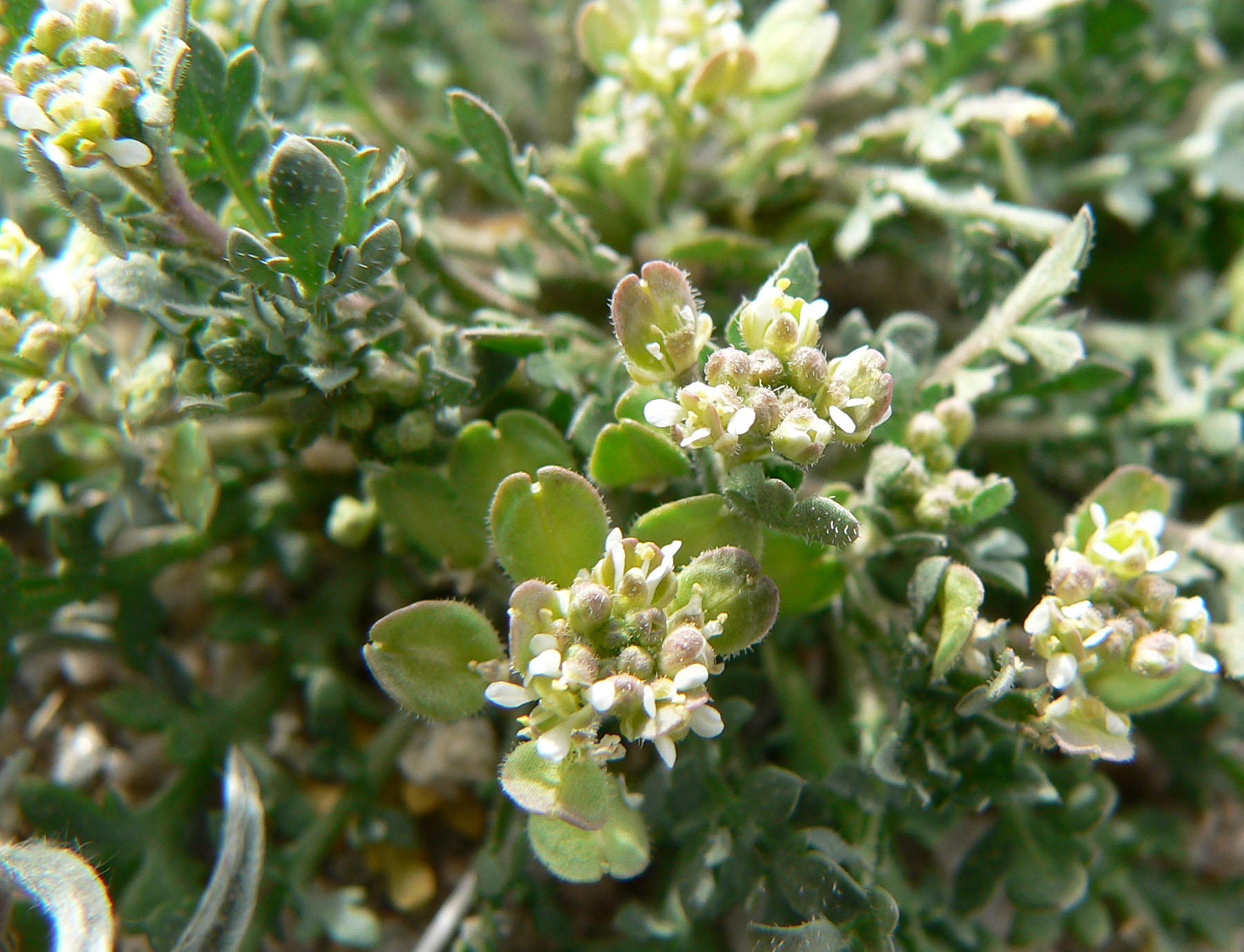 Lepidium lasiocarpum var. lasiocarpum near the entrance sign for the Mojave National Preserve by the Kelbaker Road, southeast of Baker, California